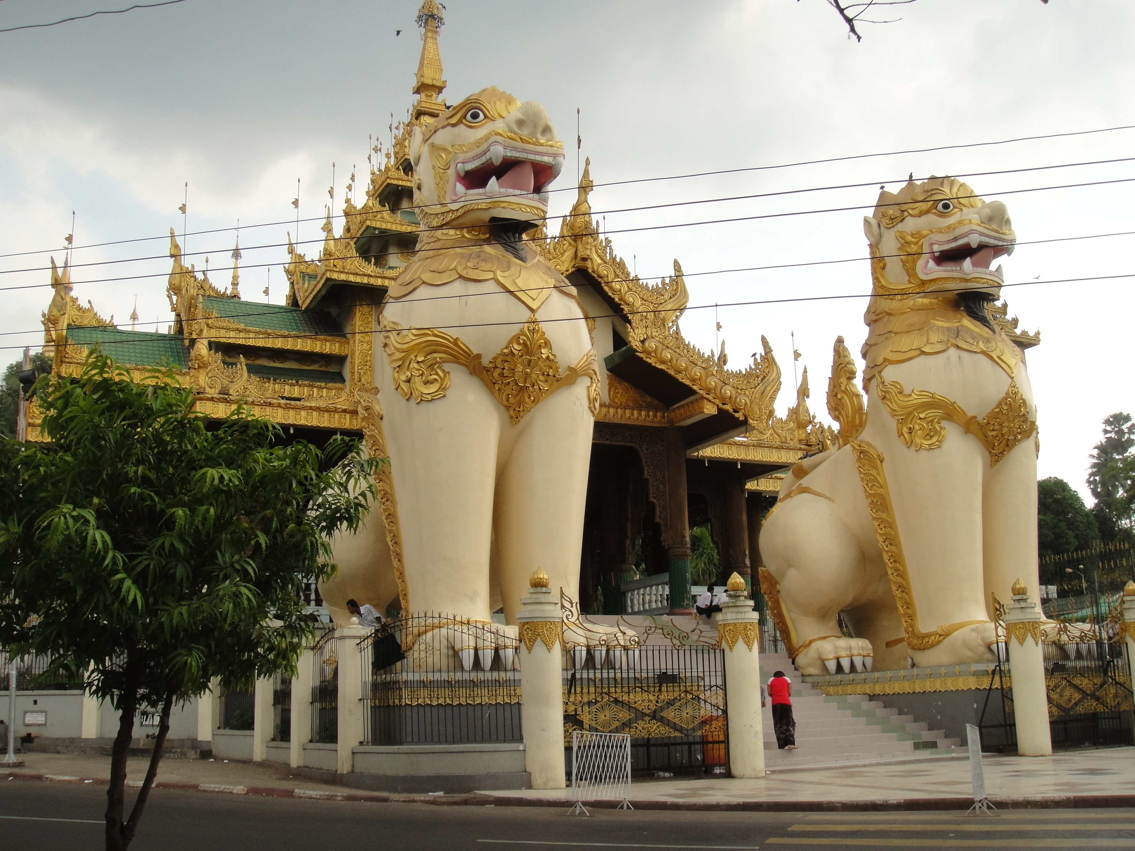 Chinthes (Lions) are arrayed at the gates of pagodas, Myanmar